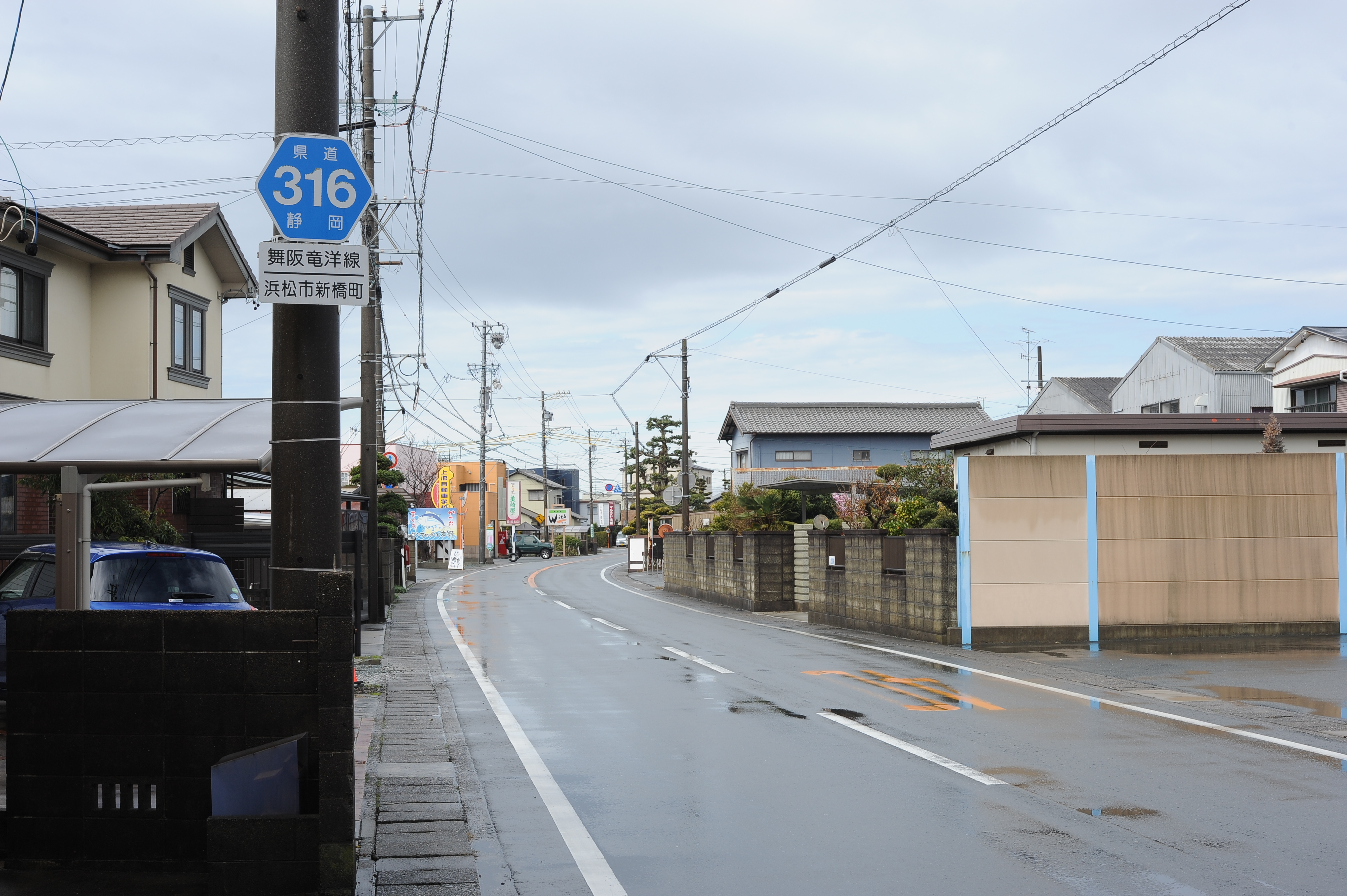 Shizuoka Prefectural Route 316, Hamamatsu, Shizuoka